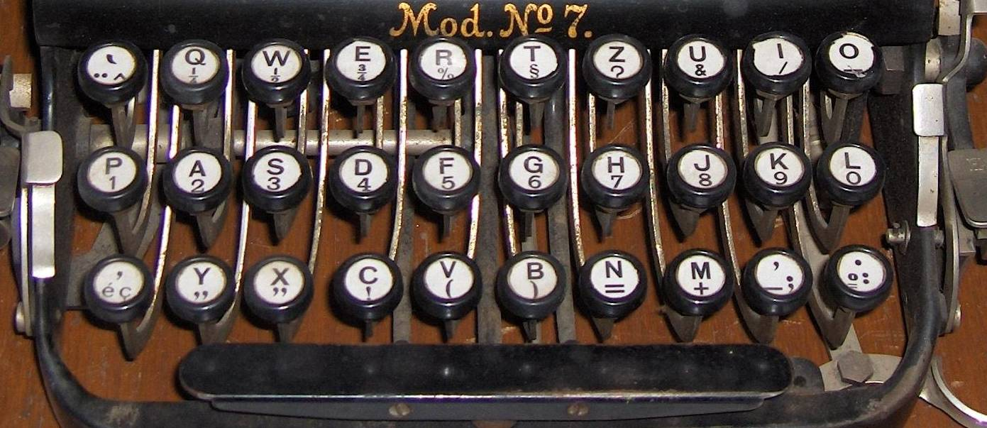 Showing the keyboard of an ADLER typewriter Model n°7 (Frankfurt / Germany), unknown model date (probably ~1899-1920). Detail of the original picture by Dake showing the whole typewriter.